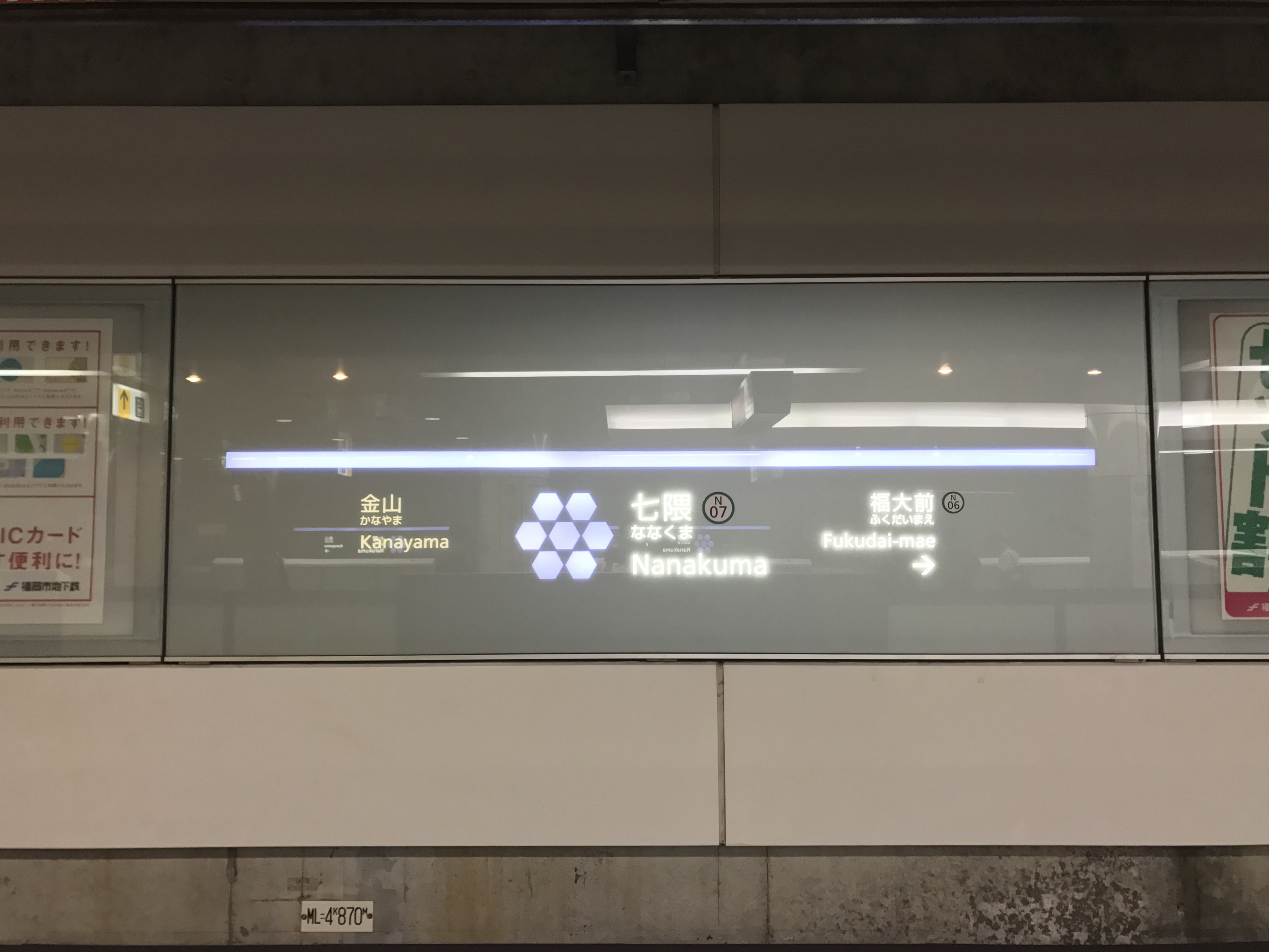 Nanakuma Station on the Fukuoka Subway in Fukuoka, Japan